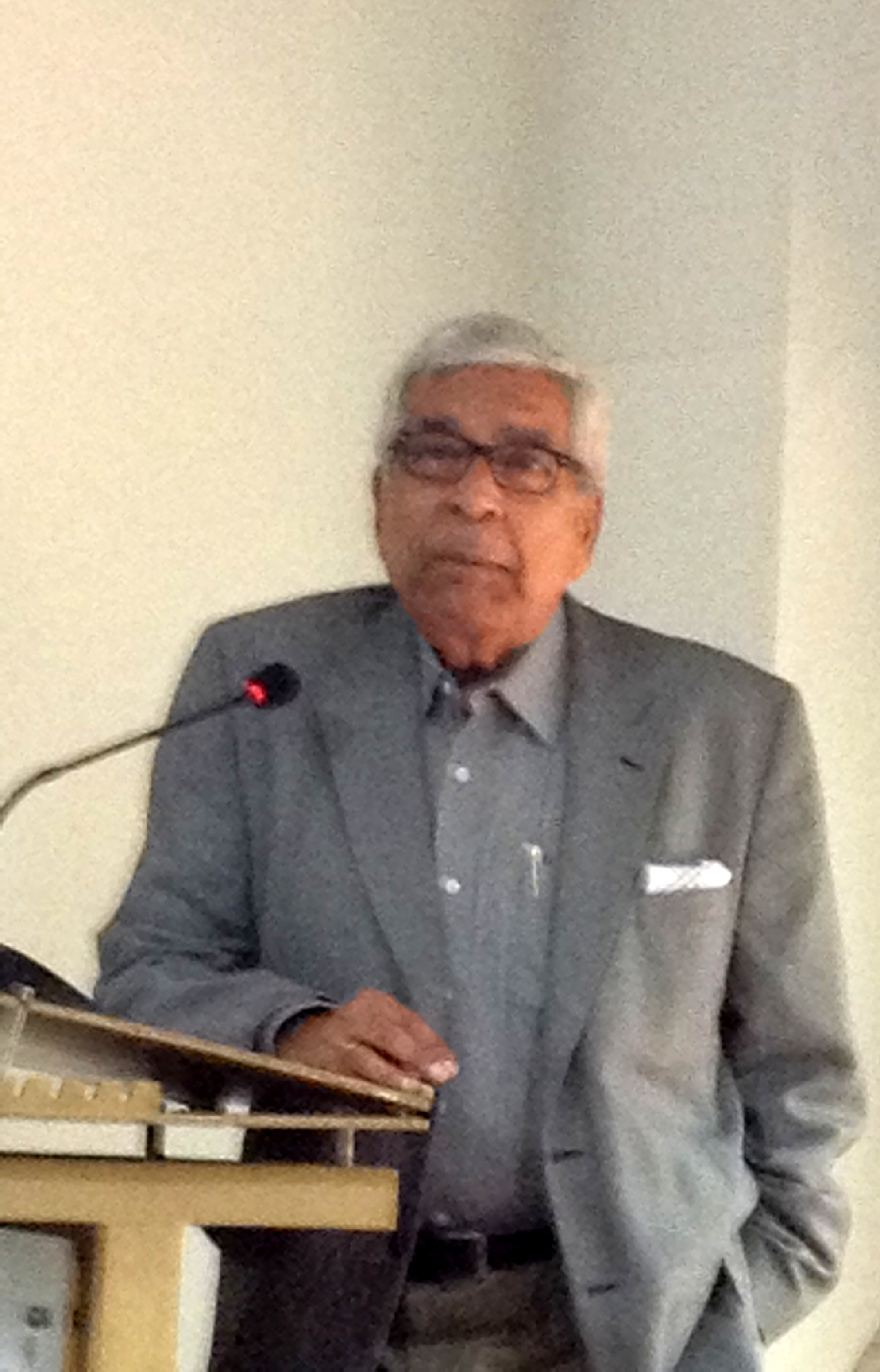 Yoginder K Alag, noted Indian Economist,India